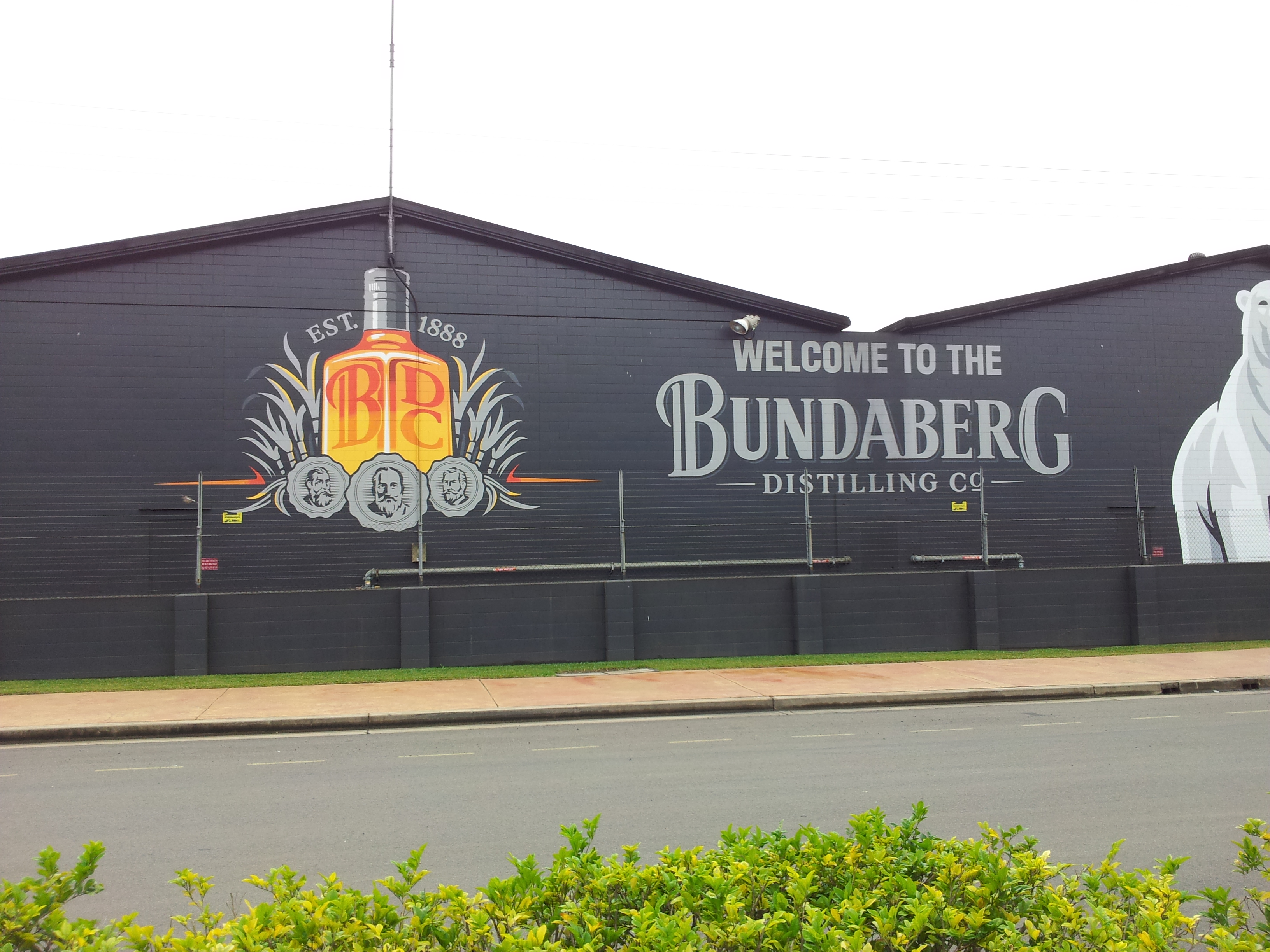 Bundaberg Rum Factory, Bunadberg, Australia